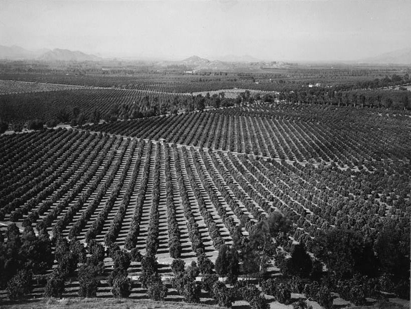 VIEW OF ARLINGTON HEIGHTS CITRUS GROVES — circa 1903, in Riverside, California. Photocopy of photograph (original print at Riverside Library, Local History Collection), photographer and date unknown.